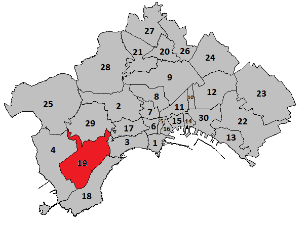 Fuorigrotta in Naples